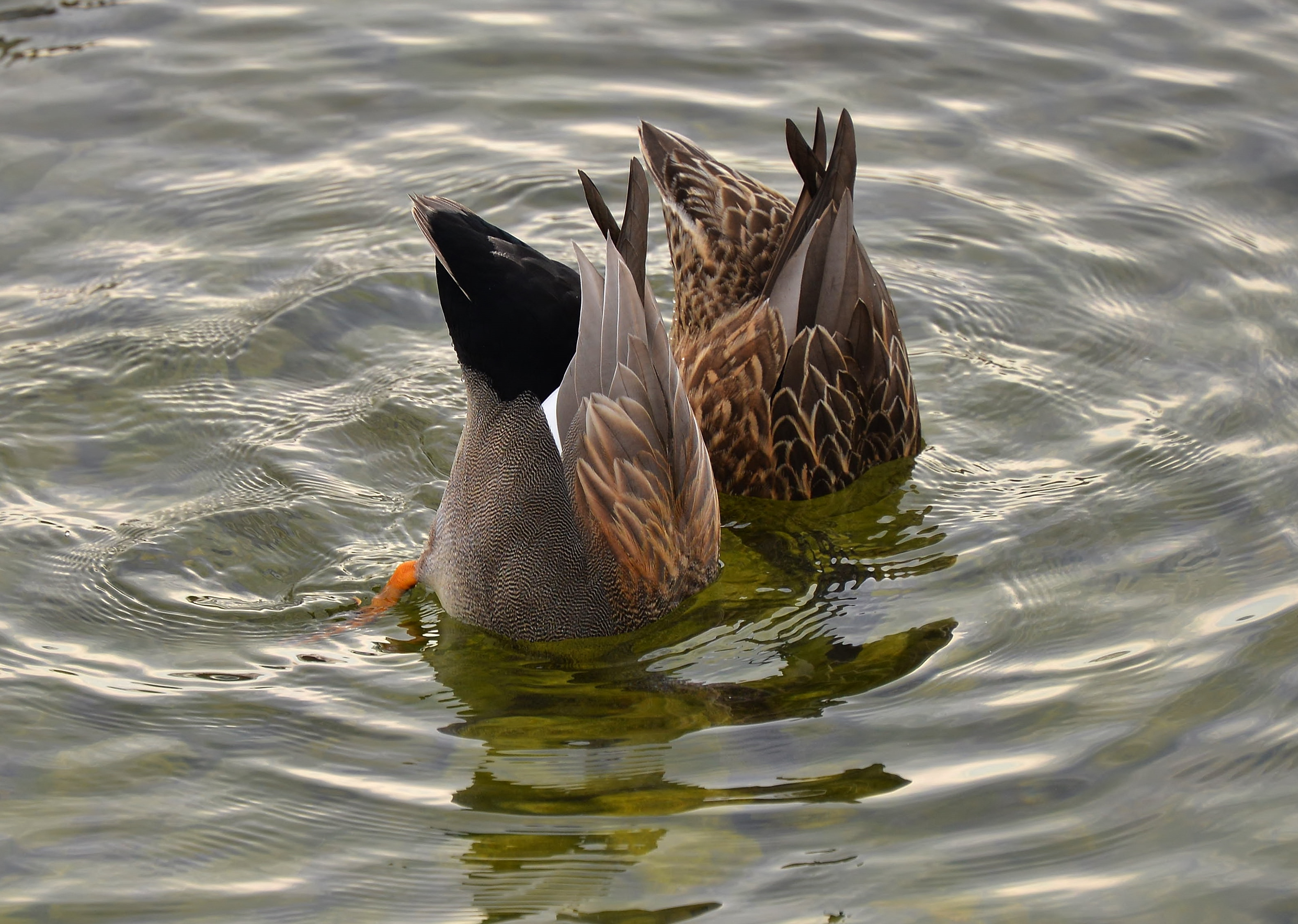 Male and female gadwalls (Anas strepera) dabbling for food in Amos Waites Park, Ontario Lake, Toronto